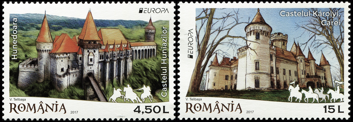 Postage stamps of Romania, 2017. Castles. EUROPA Issue